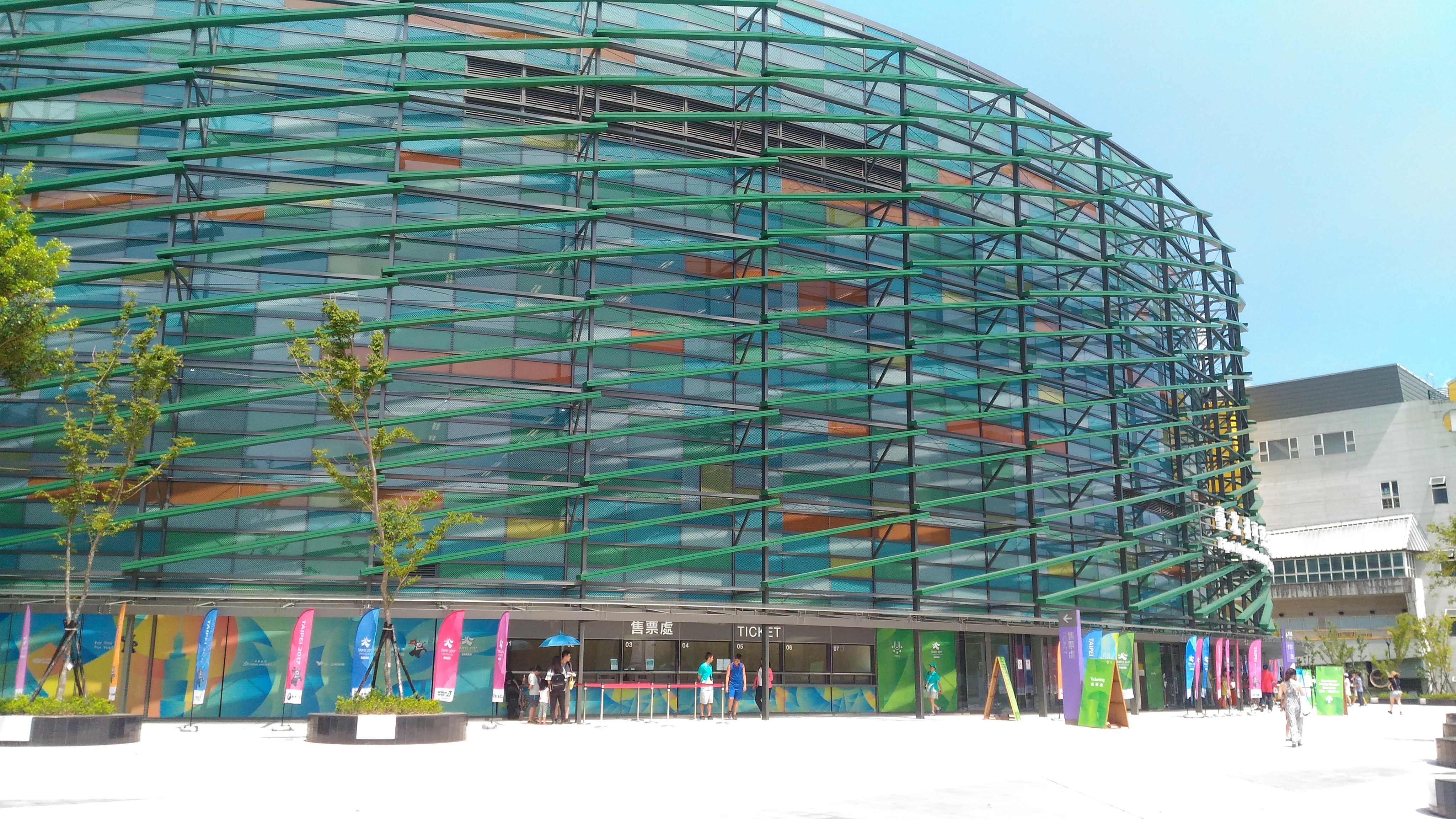 Taipei Heping Basketball Gymnasium